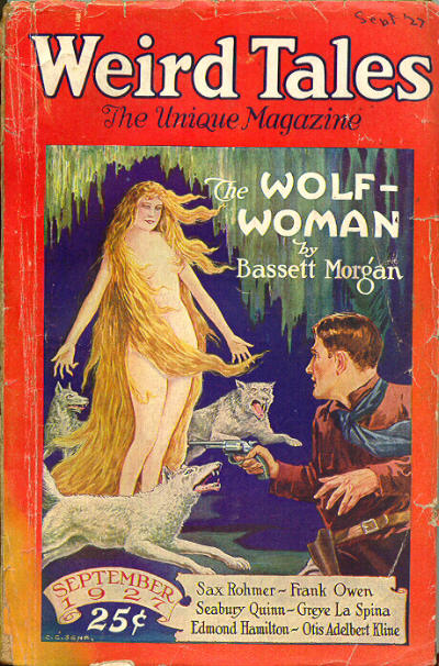 Cover of the pulp magazine Weird Tales (Sep 1927, vol. 10, no. 3) featuring The Wolf-Woman by Basset Morgan. Cover art by C. C. Senf.